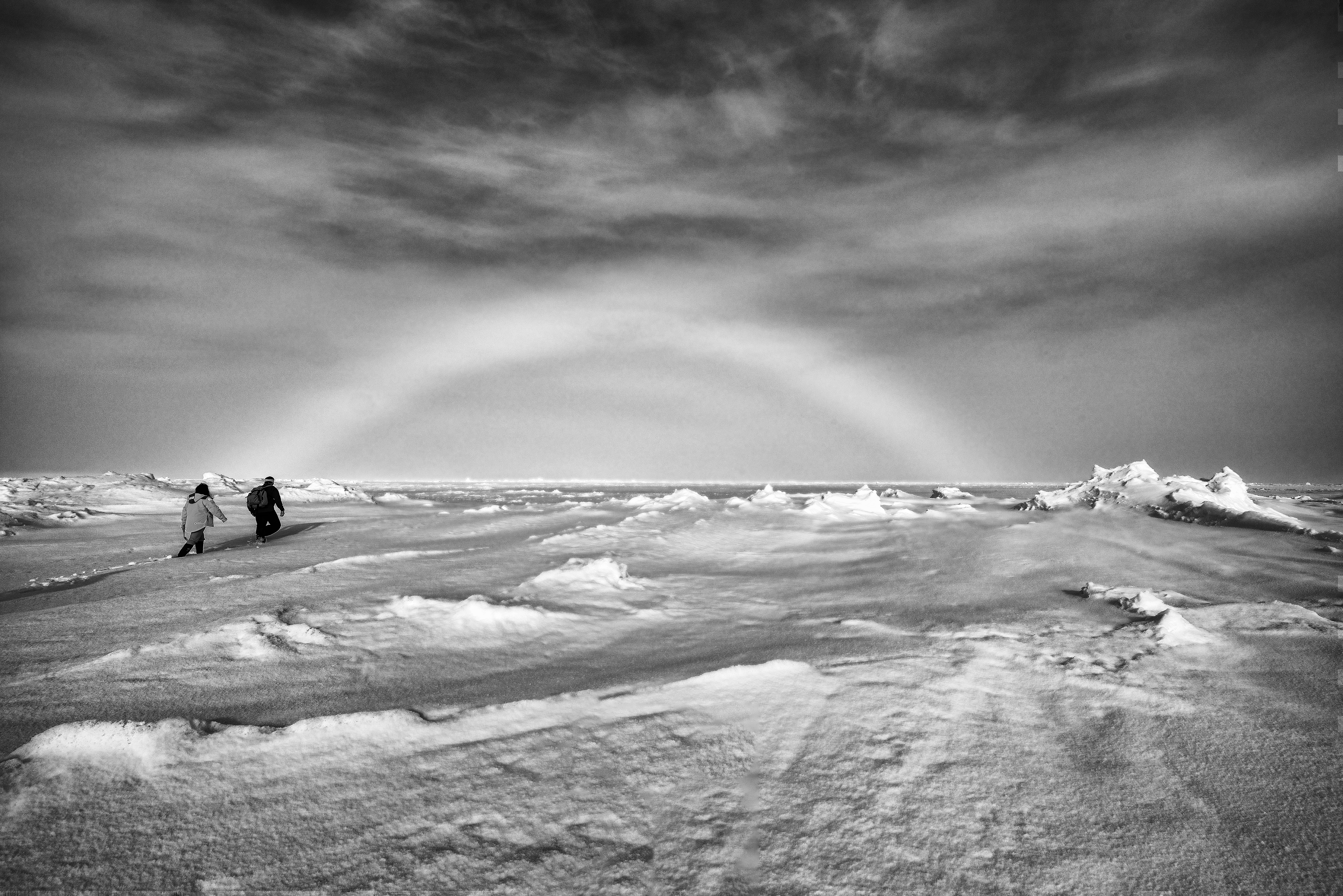 North Pole Keep